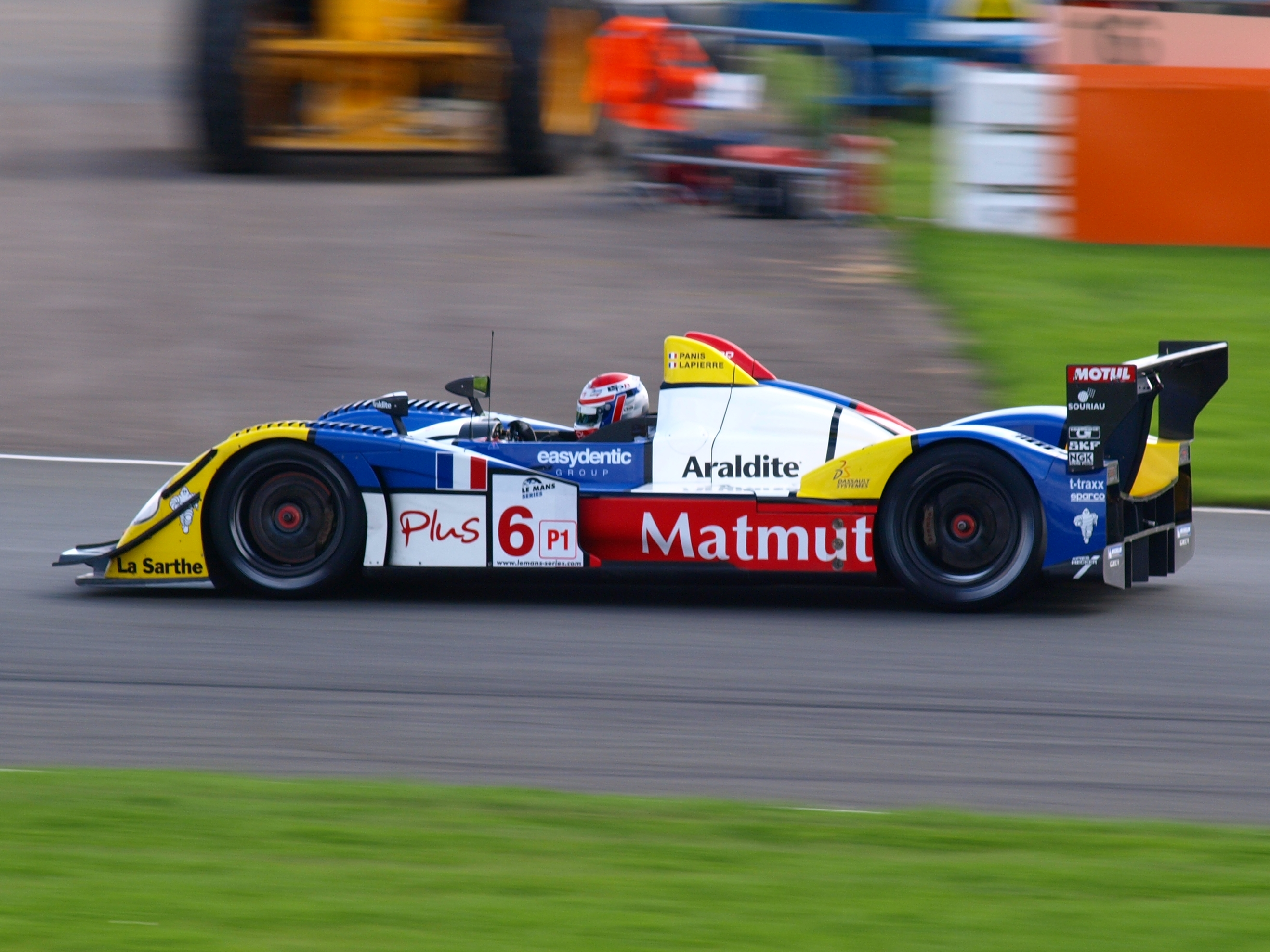 Team Oreca-Matmut's Courage-Oreca LC70-Judd at the 2008 1000km of Silverstone